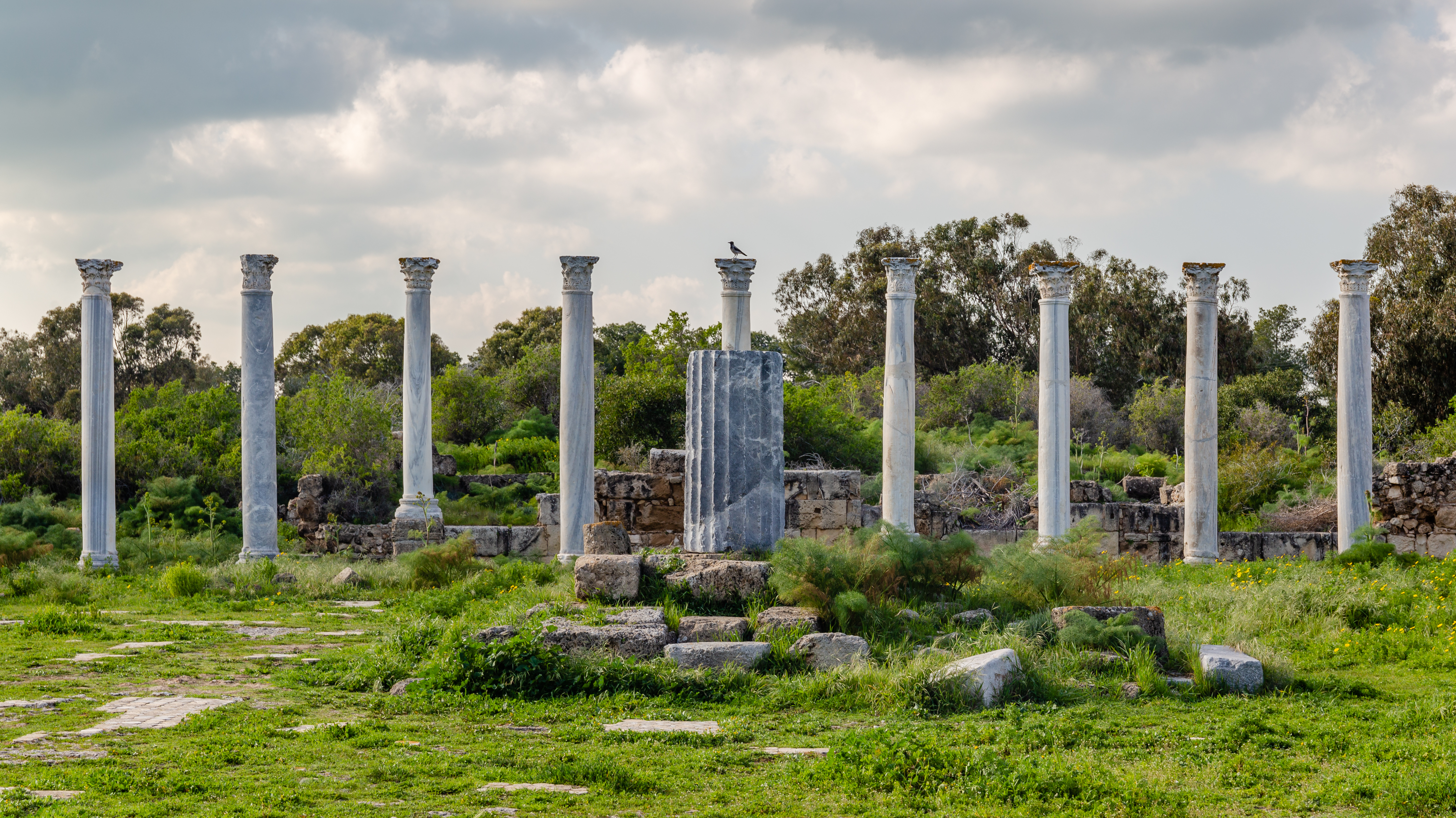 Columns in Roman gymnasium, Salamis, Northern Cyprus